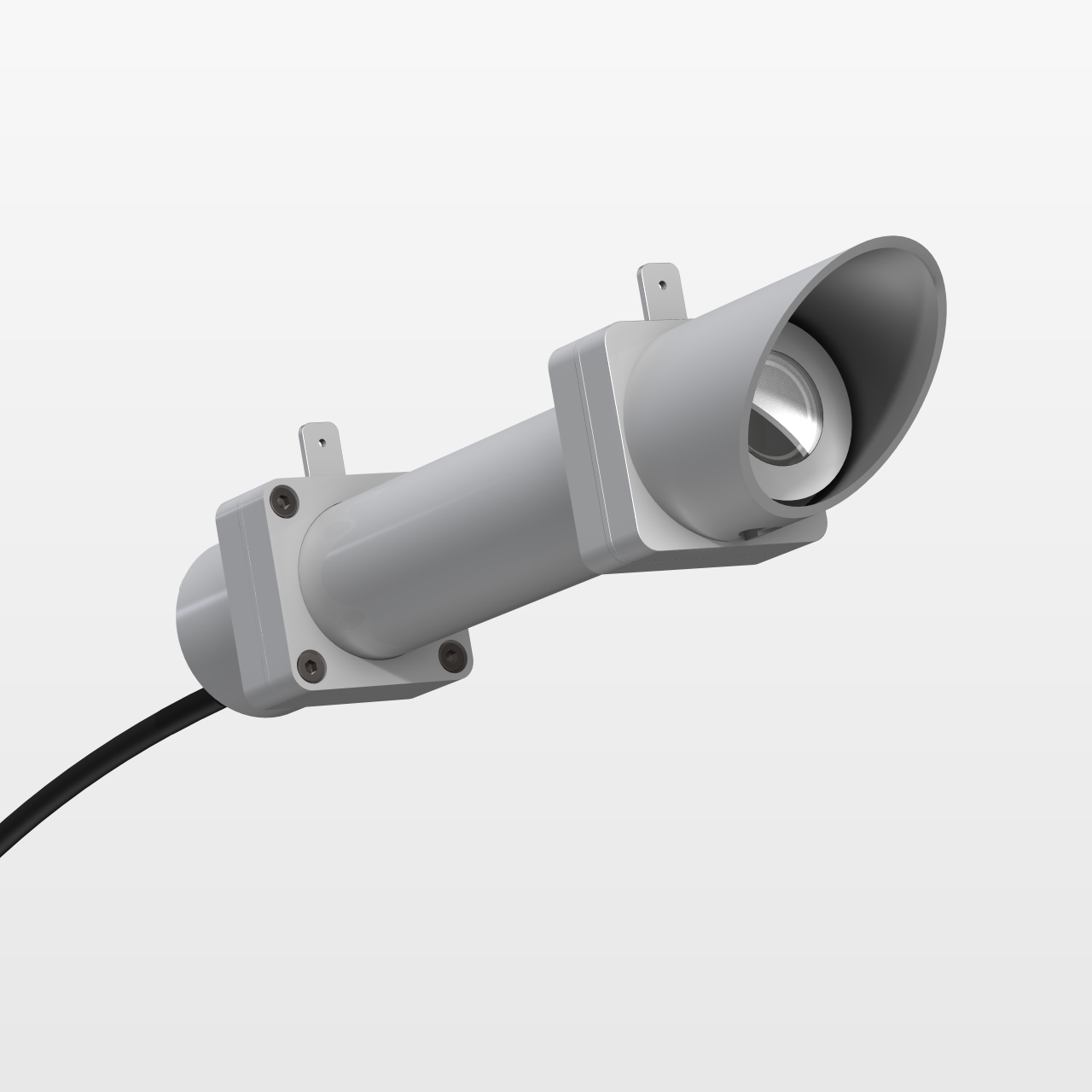 DR03 Pyrheliometer, used for measuring direct solar radiation.